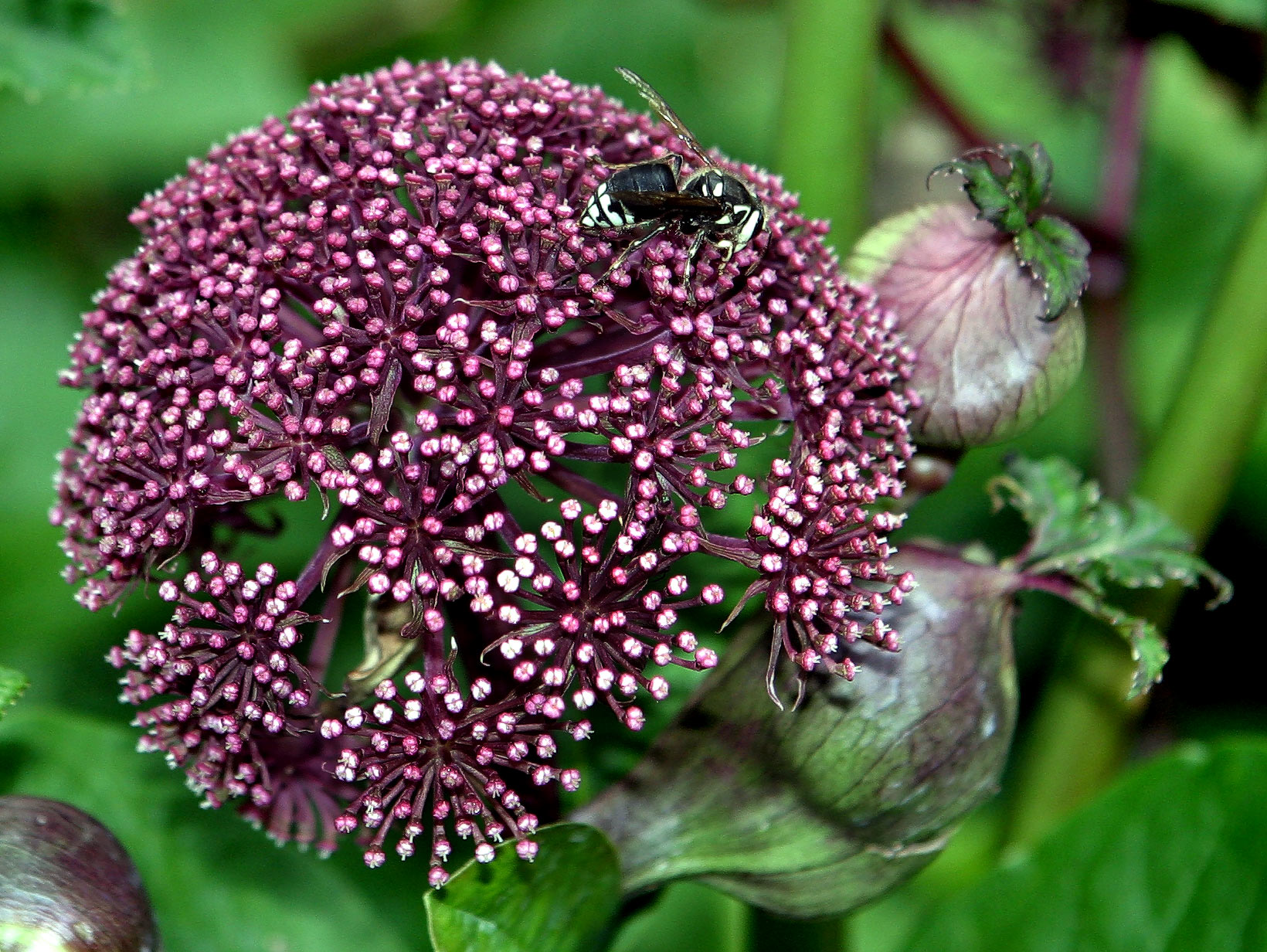 Self made picture of the flowers of Angelica gigas, taken 2007 by Paul Henjum.